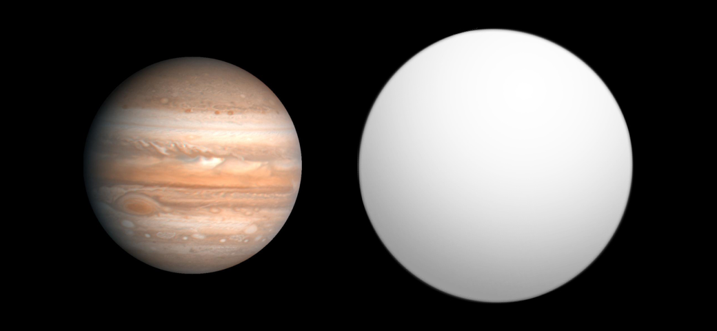 Comparison of best-fit size of the exoplanet WASP-14 b with the Solar System planet Jupiter, as reported in the Open Exoplanet Catalogue[1] as of 2010-09-30. ↑ Open Exoplanet Catalogue (2010-09-30). Retrieved on 2010-09-30.